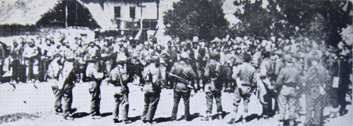 Forming of the Division 41st, village Sheshkovo, August 1944 This media file is produced by Wikipedian in Residence in Category:Wikipedian in Residence at DARM in 2016.